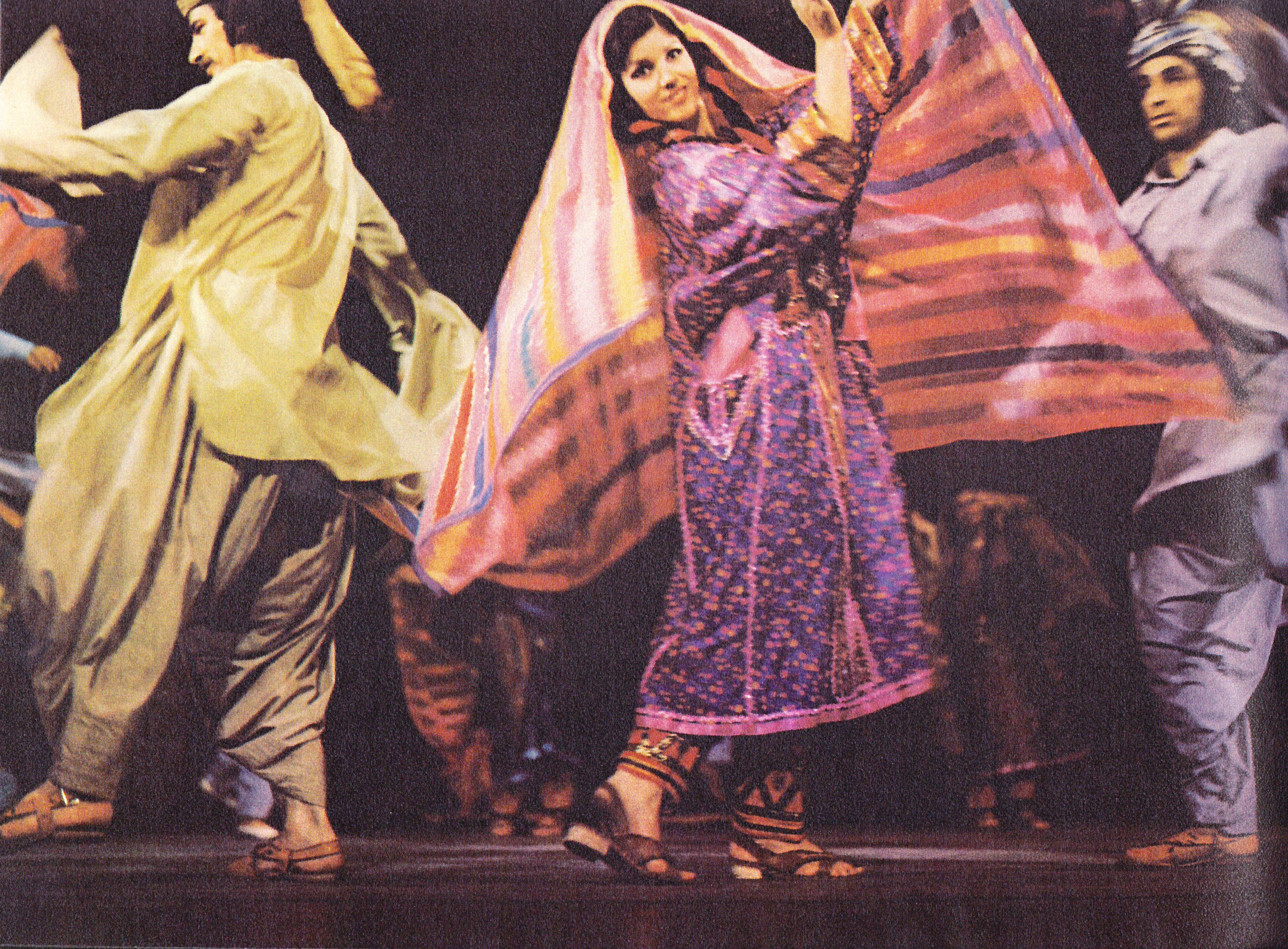 Iranian folk dance group, 1967